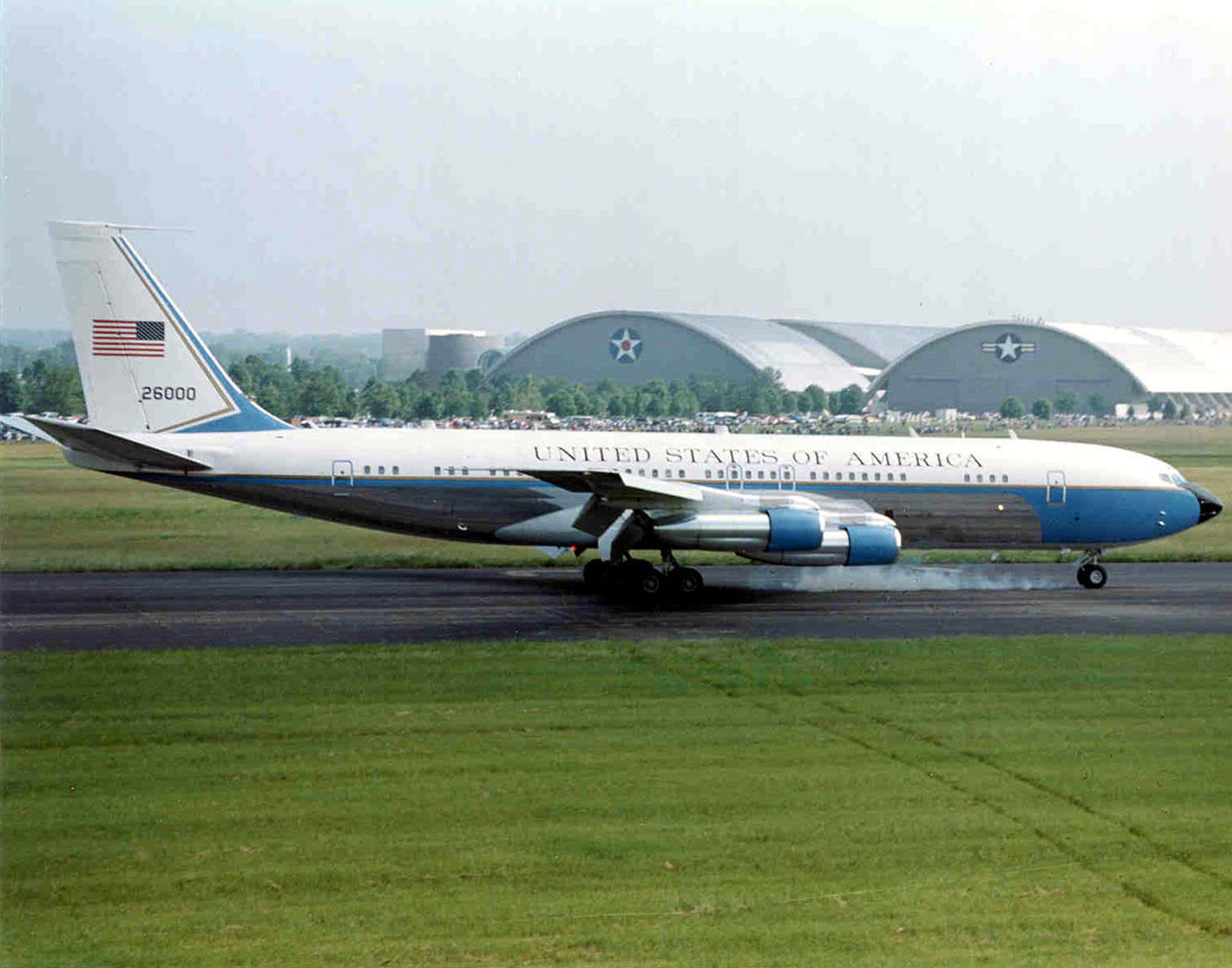 DAYTON, Ohio -- Boeing VC-137C SAM 26000 at the National Museum of the United States Air Force.